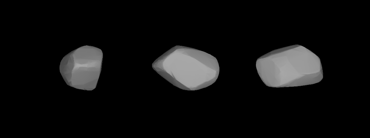 A three-dimensional model of 1102 Pepita that was computed using light curve inversion techniques.